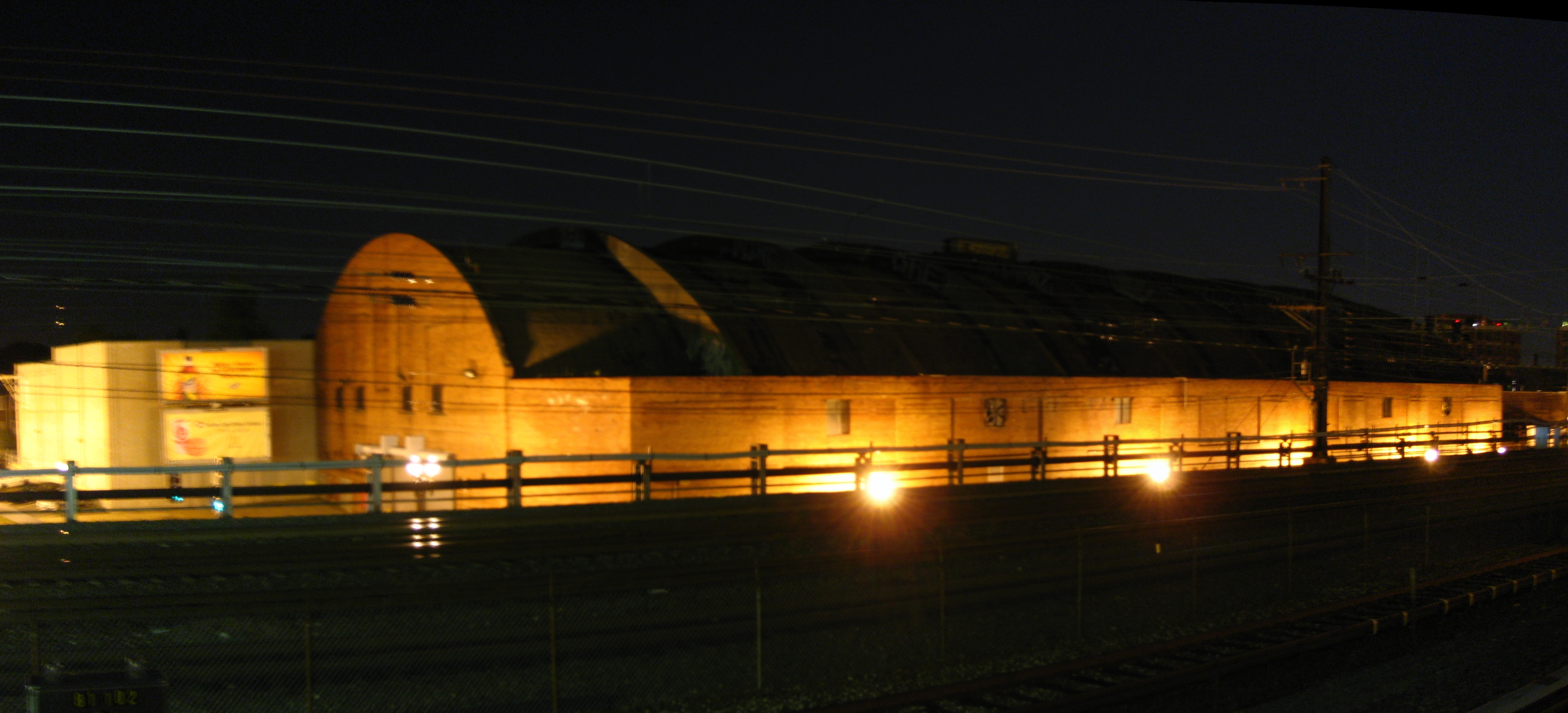 This is where The Beatles played their first concert in the United States - two days after their February 9th, 1964 appearance on "Ed Sullivan." The building is now being renovated into a performing arts center, after many years as a trash transfer facility.